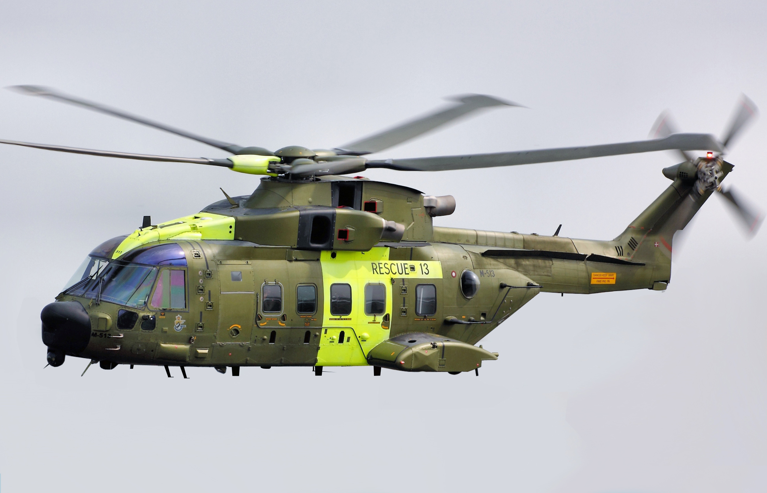 Danish EH-101 Merlin